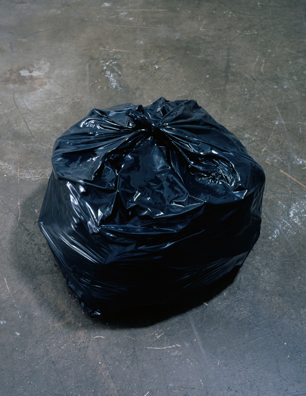 Gavin Turk, Bag, 2000